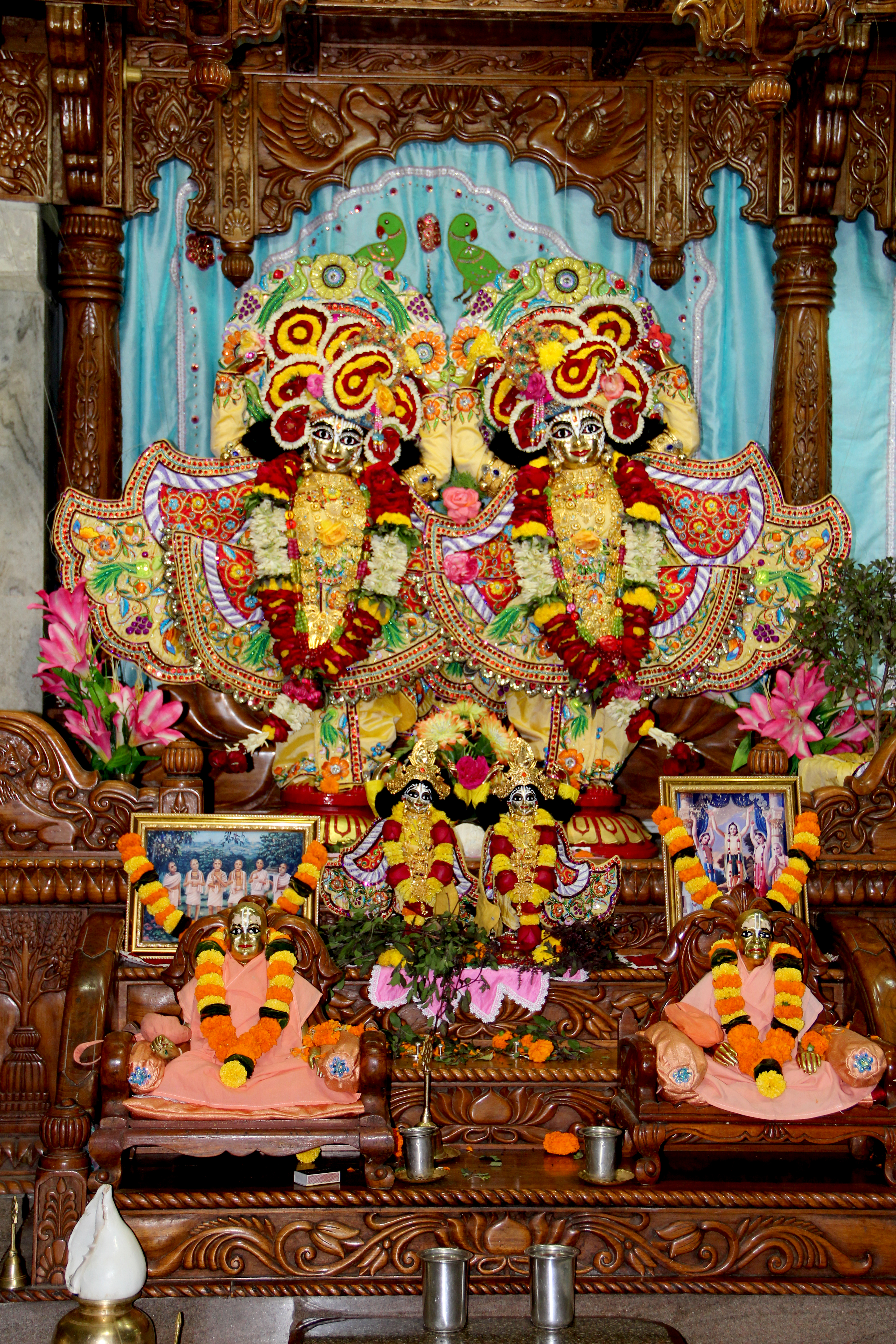 ଓଡ଼ିଆ: ISKCON Temple Bhubaneswar This media file is uploaded with Odia loves Wikipedia English |italiano |македонски |മലയാളം |ଓଡ଼ିଆ +/−